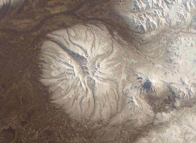 Shield volcano Bolshaya Ipelka, the largest volcanic structure of South Kamchatka. To the right of it rises the strato volcano Opala